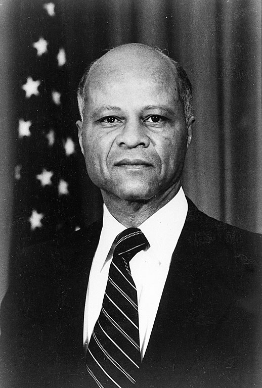 John E. Reinhardt, Acting Assistant Secretary for History and Art from 1983 to 1984, and Acting Director of the National Museum of African Art from 1981 to 1983.